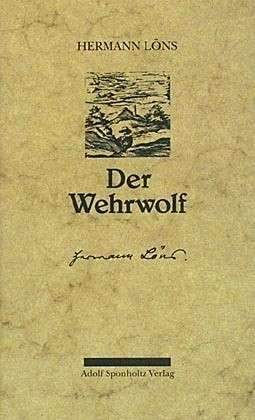 Der Wehrwolf, 1910 novel by Hermann Löns (1866–1914). First print.